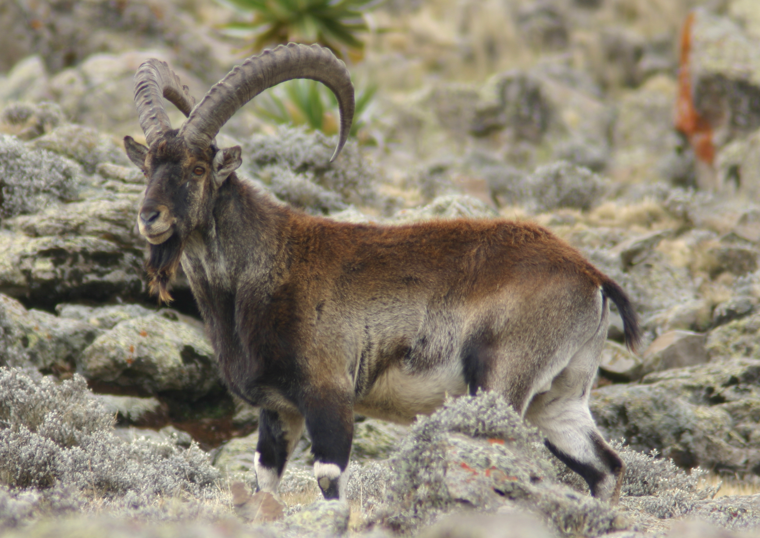 Walia ibex, Simien Mountains National Park, Ethiopian Highlands